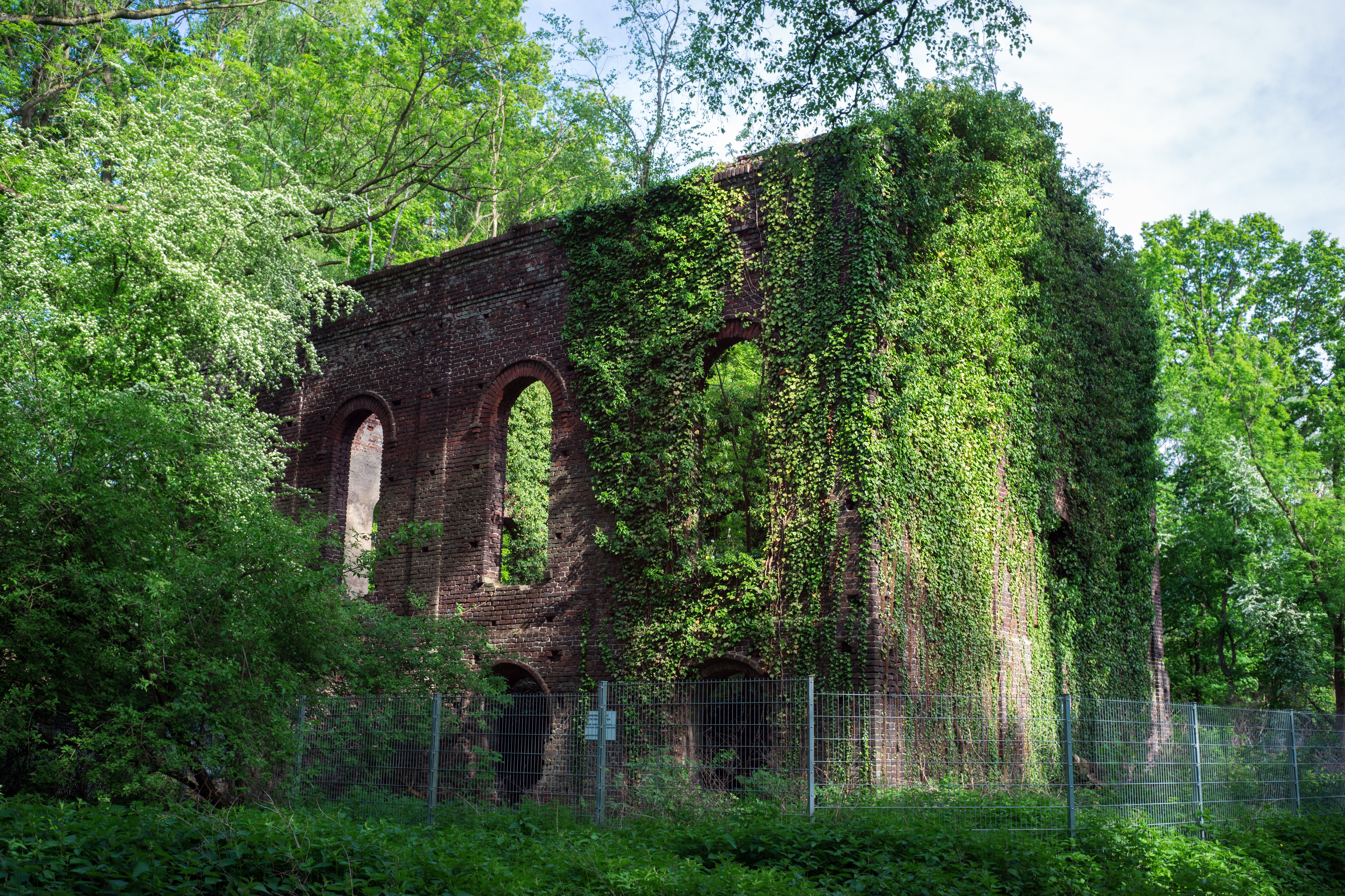 Ruin of the engine house of the coal-mine Rudolph in Essen-Kettwig.